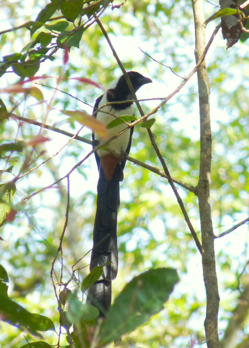 White-bellied Treepie Dendrocitta leucogastra at Anamalais, Anamalai Tiger Reserve, Tamil Nadu, India